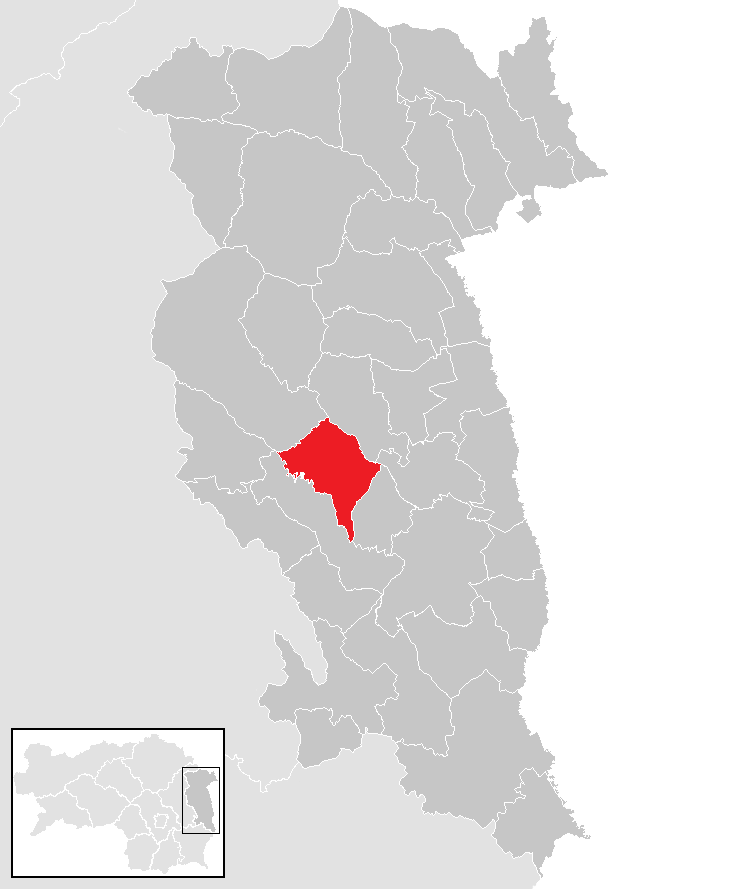 district Hartberg-Fürstenfeld